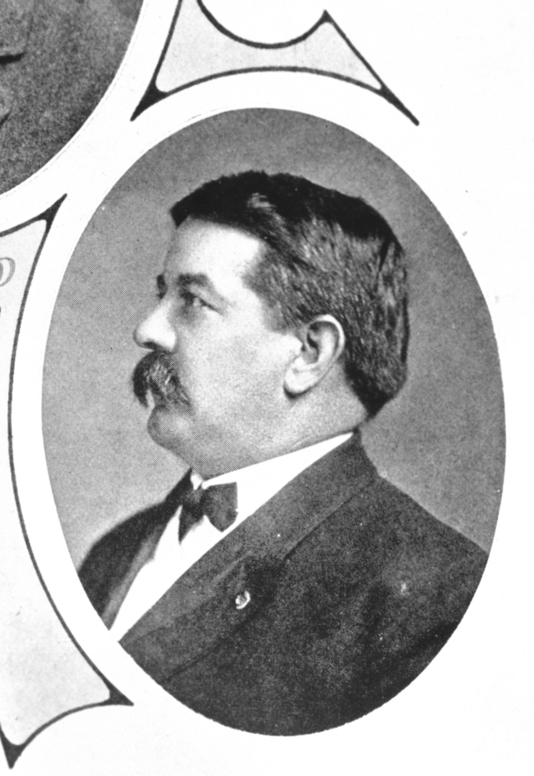 George M. Bowers, fifth United States Commissioner of Fisheries